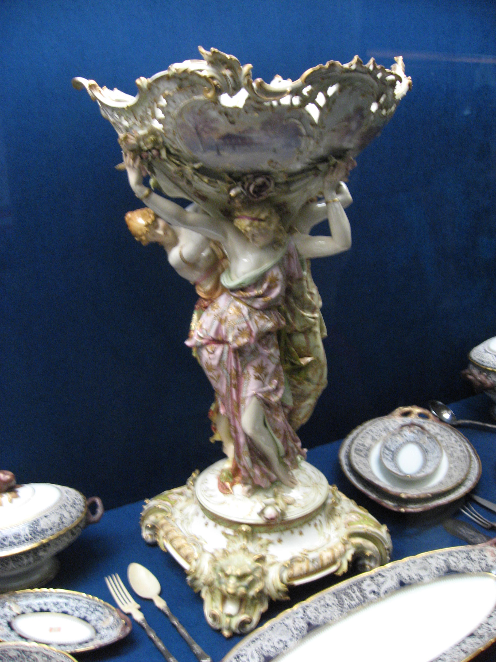 Parts of the Valuable Collection (Değerli Eşyalar) in Dolmabahçe Palace.